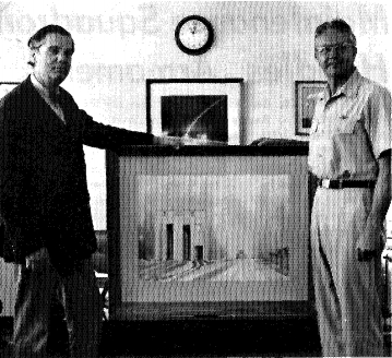 The Missileer Vol 9 No. 7 February 20, 1970 page 3 Original caption reads: "TITAN PAINTING - Maj. Gen. David M. Jones, Air Force Eastern Test Range commander, accepts a painting of the Titan Integrate - Transfer - Launch Complex at Cape Kennedy from well known water colorist, Theordore Hanckcock. Accepted on behalf of the Air Force Eastern Test Range, the watercolor will be added to the collection at the Air Force Space Museum at Cape Kennedy AFS. (USAF Photo)" Hancock is on the left, in the dark jacket.